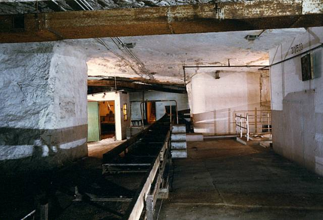 Bottom of 20 District Slope Shaft 20 District of the ammunition depot also falls within this grid square, here is a photo taken in the early 1980's before any real damage has been done. The picture shows the conveyor heading to the shaft with a step over point, an office on the left and the barrier around the sewage ejector on the right. The trunking on the ceiling was for the air conditioning.